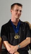 Boris Konrad at WMC 2006